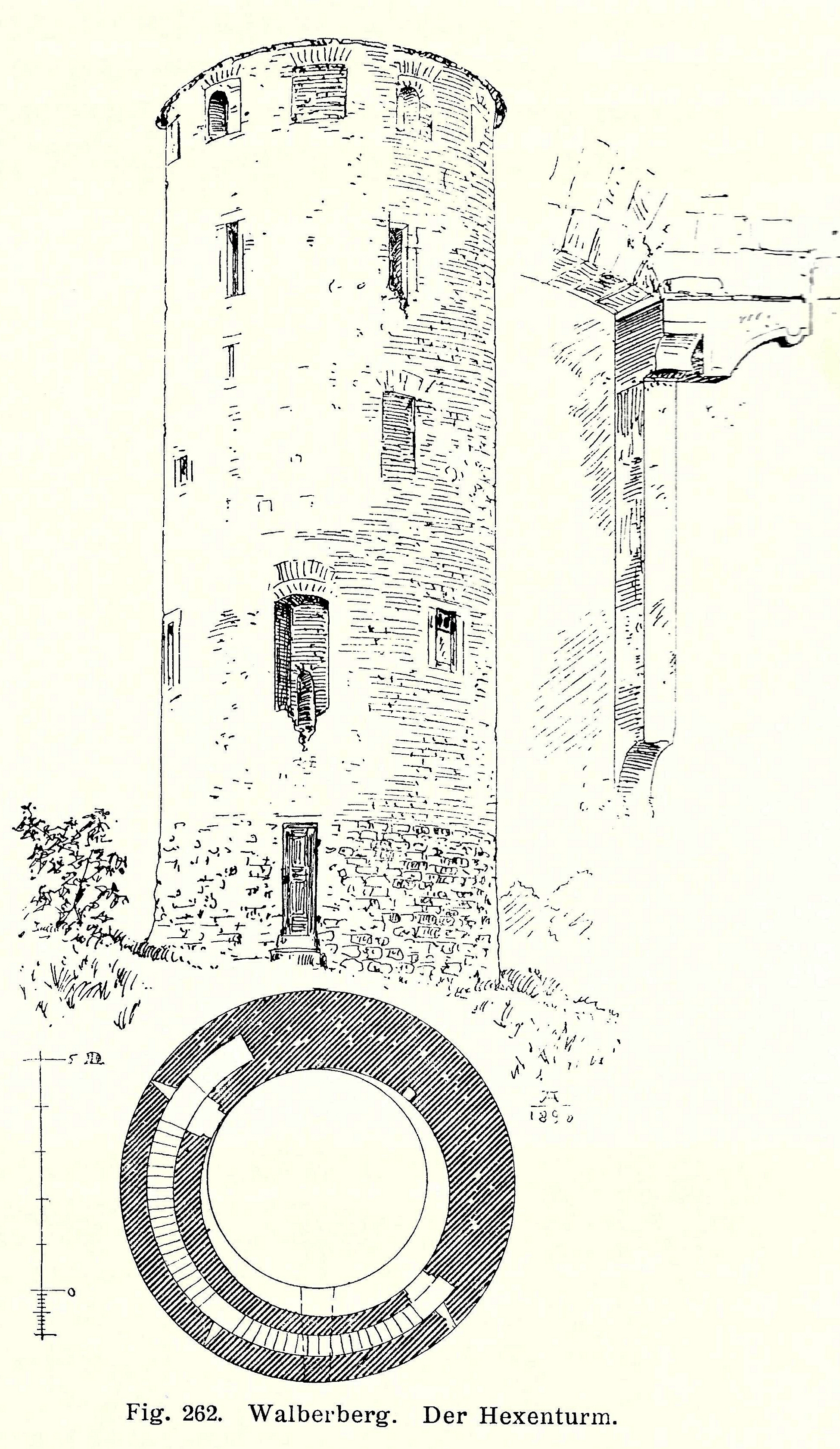 Drawing (1890) of a middle ages residence tower, at a later date named „Witchtower of Walberberg“